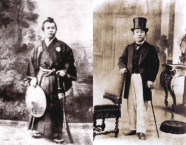 Eiichi Shibusawa (1840–1931)